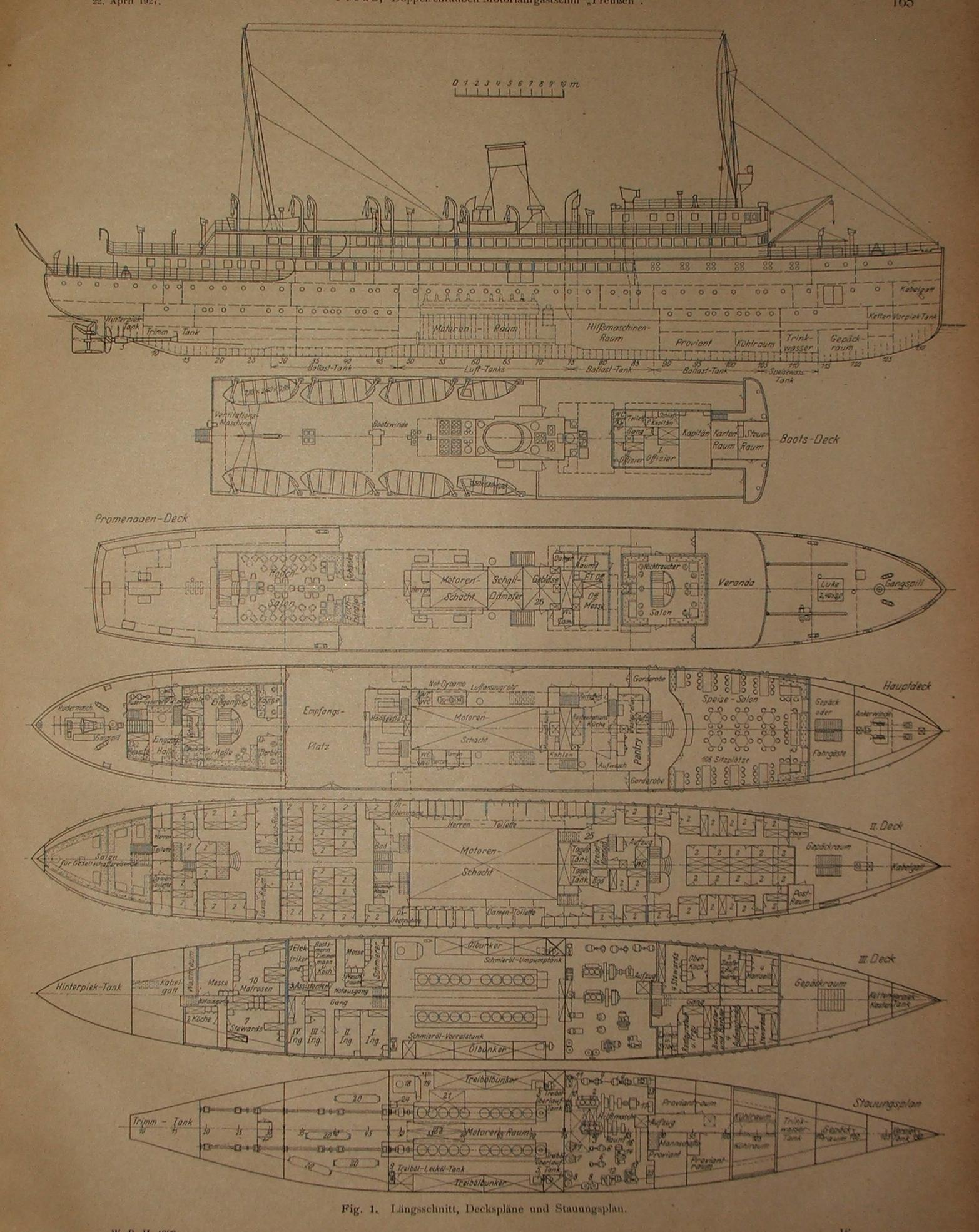 Deckplans Preußen